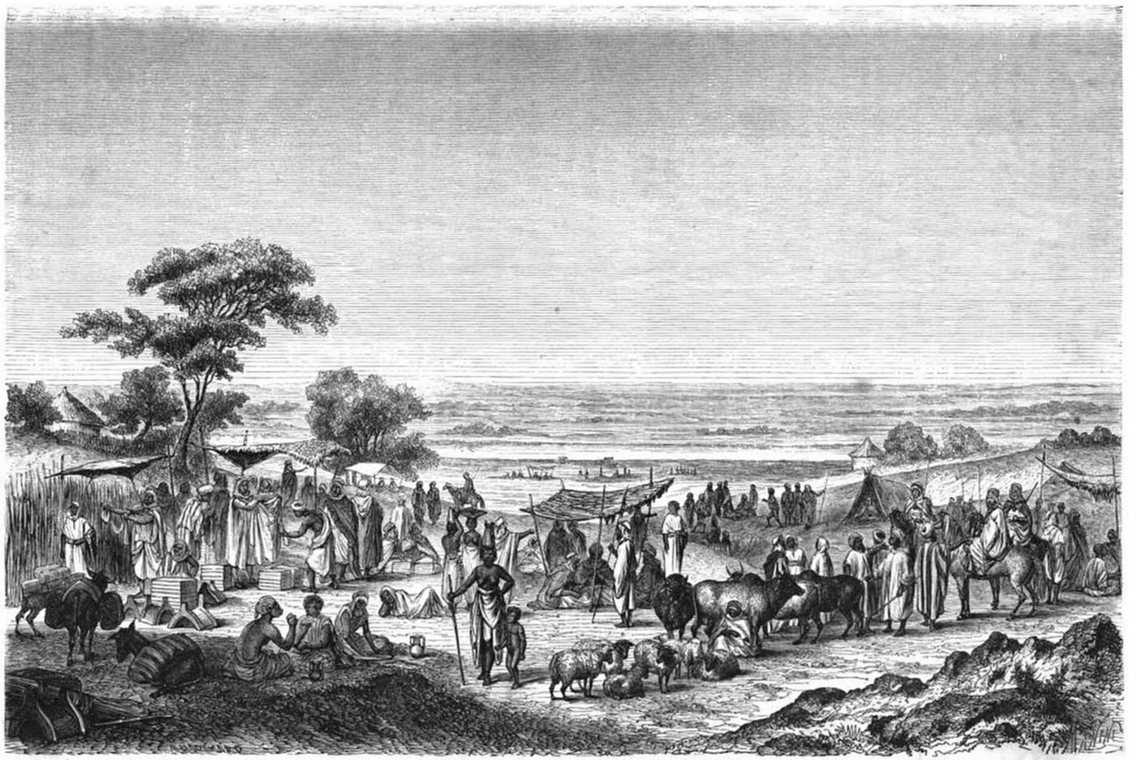 View of Sokoto market.